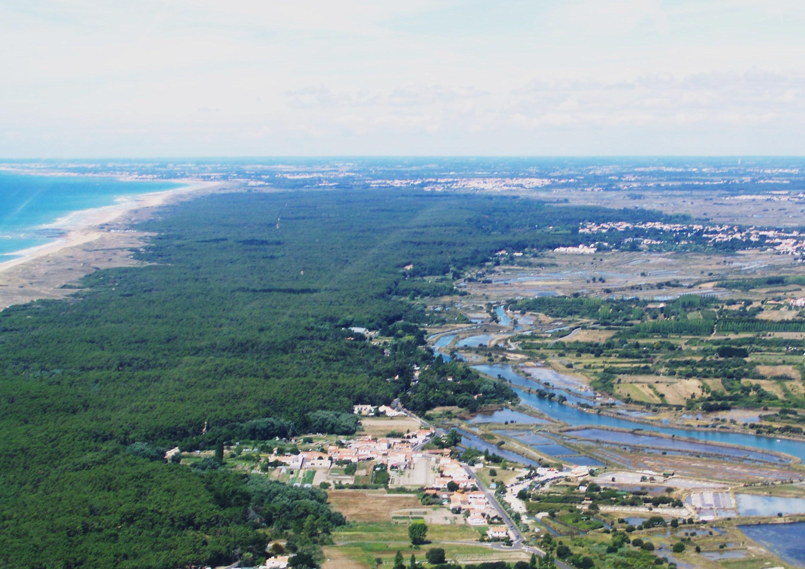 Sight from the air on French commune of Olonne-sur-Mer in Vendée. Can here be seen the city center, feeder canal and saline water on the right, and the domanial forest of Olonne and the Atlantic ocean on the left.